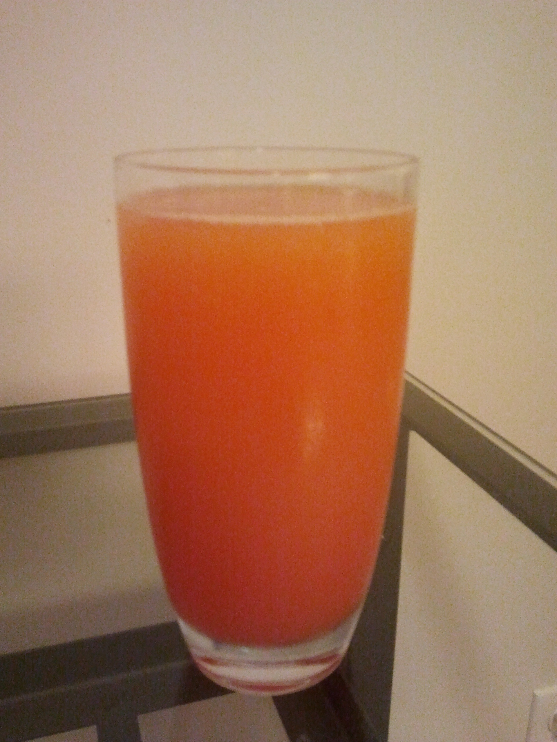 Traditional shirley temple served in tall glass minus cherry garnish.